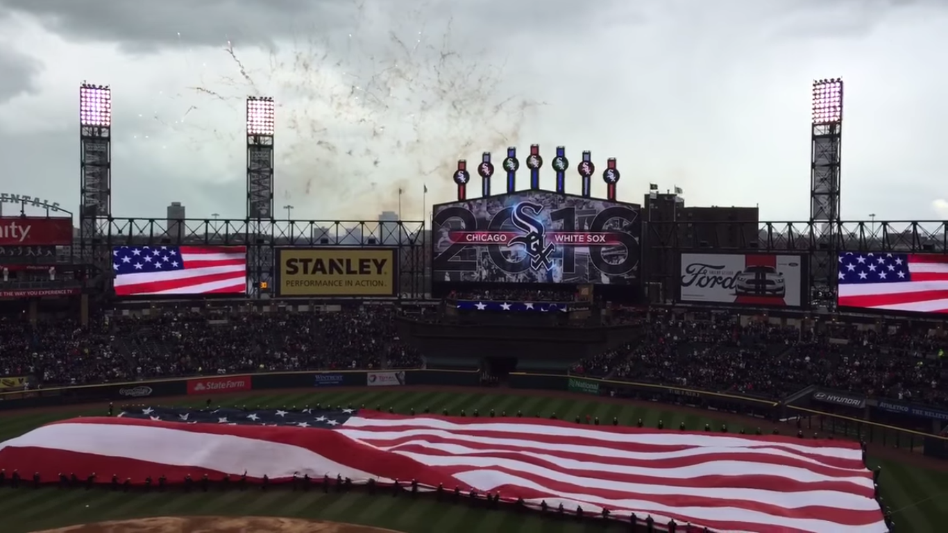 U.S. Cellular Field during 2016 Home Opener